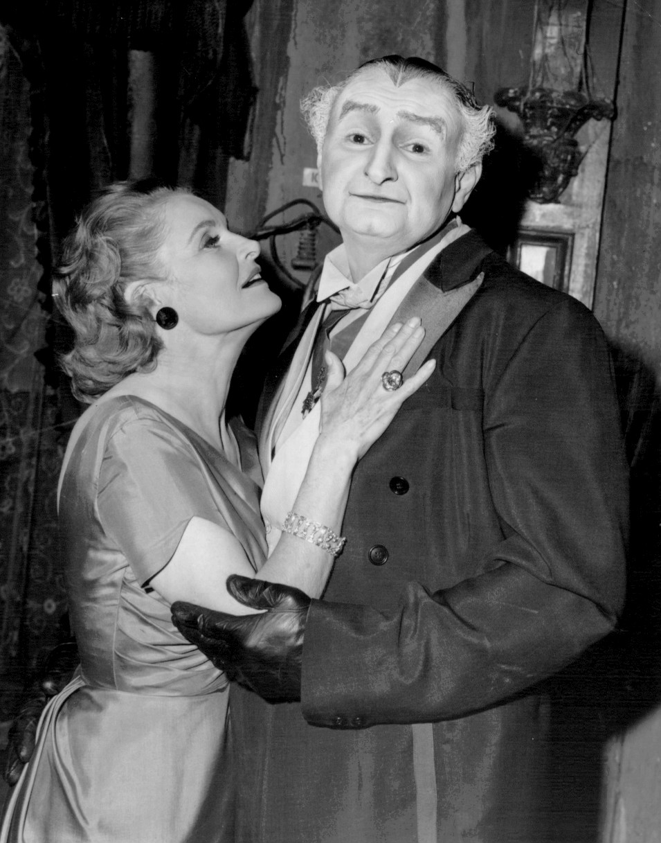 Photo of Al Lewis and Linda Watkins from the television series The Munsters. Grandpa (Lewis) is lonely so he contacts a matchmaking club.